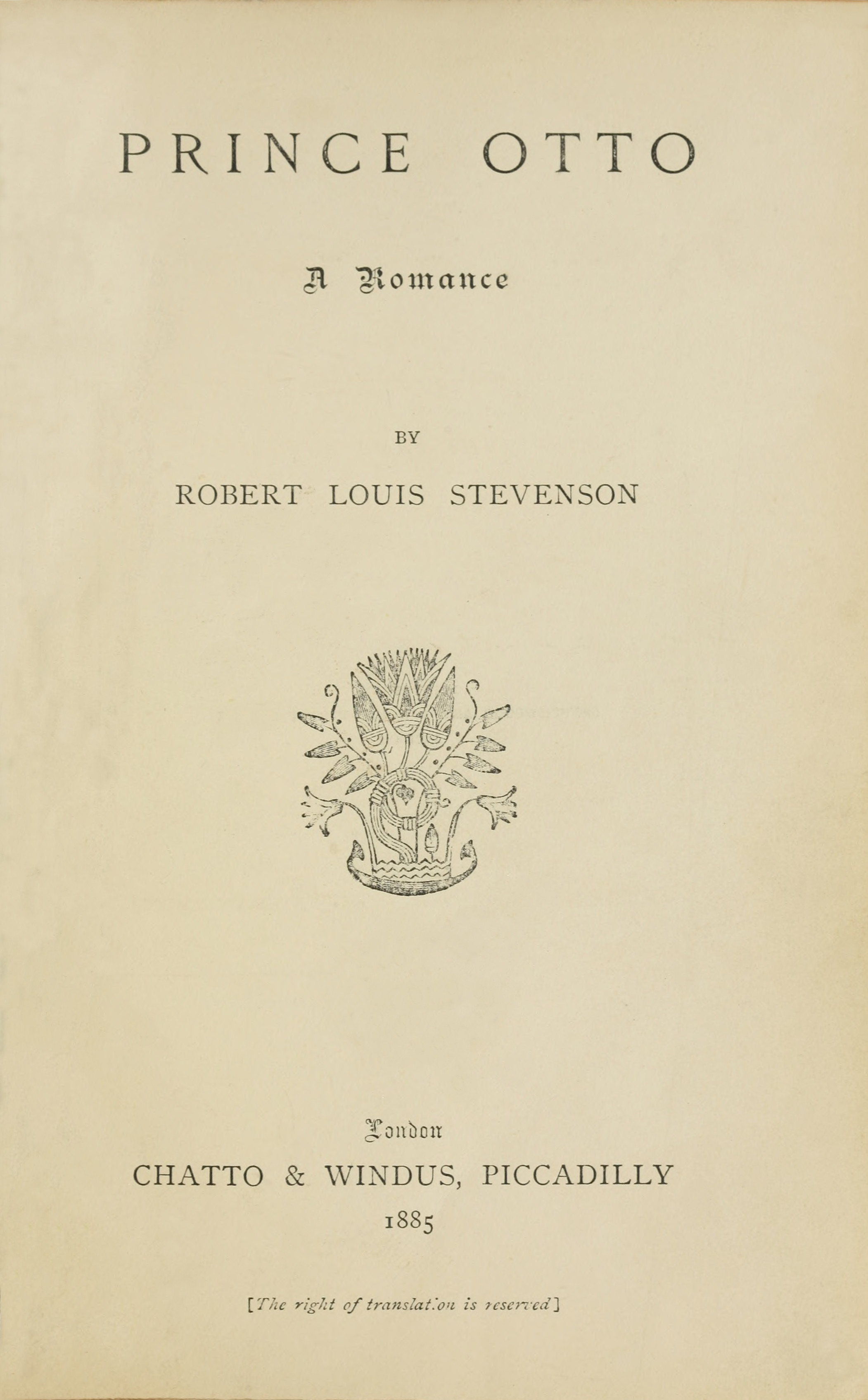 Title page of the first edition of Prince Otto (1885) by Robert Louis Stevenson. Rotated, cleaned, restored and cropped from original full quality Internet Archive scan by Yodin.